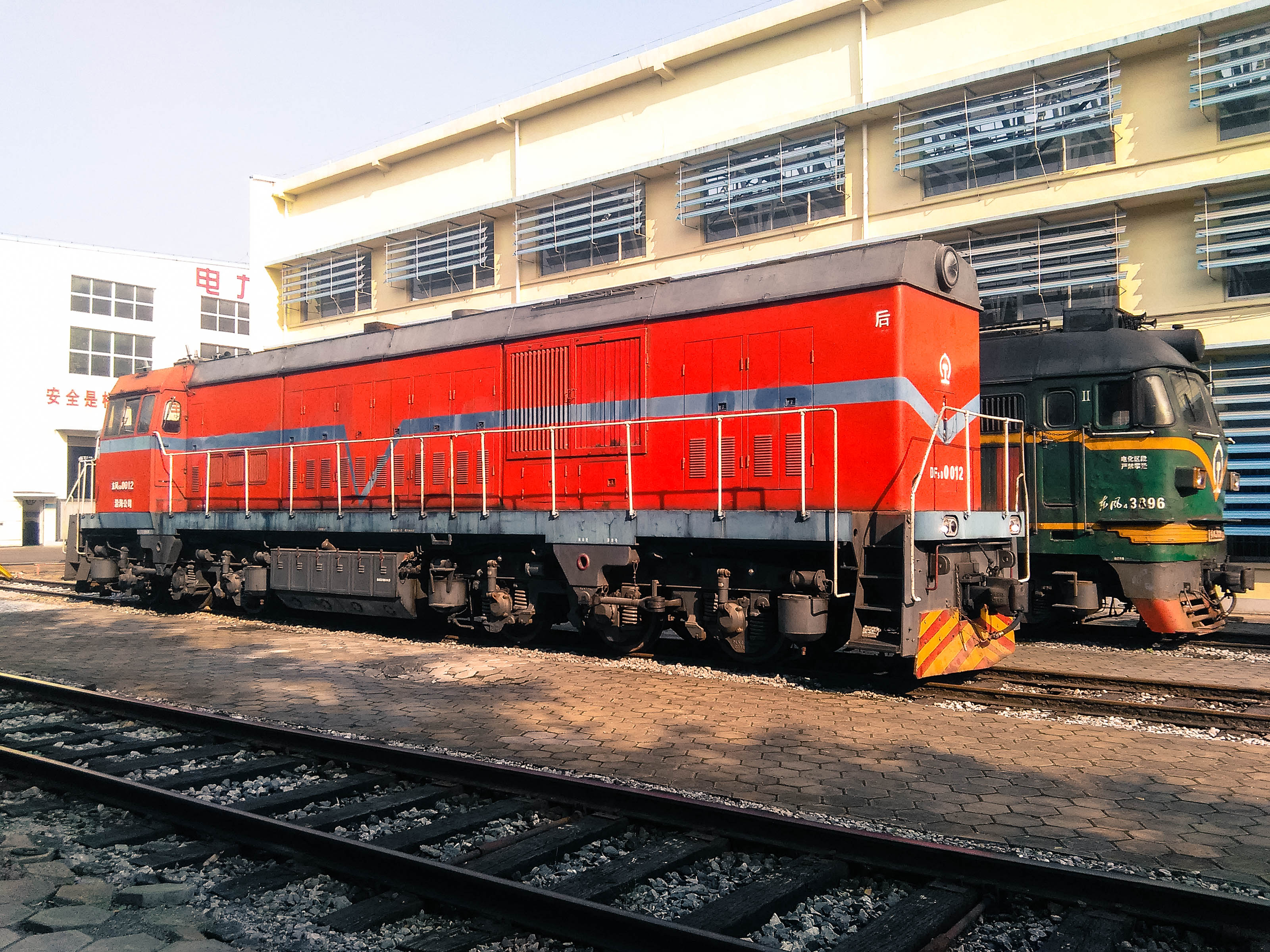 DF5D 0012 & DF4B 3896 in Liuzhou Locomotive Depot.